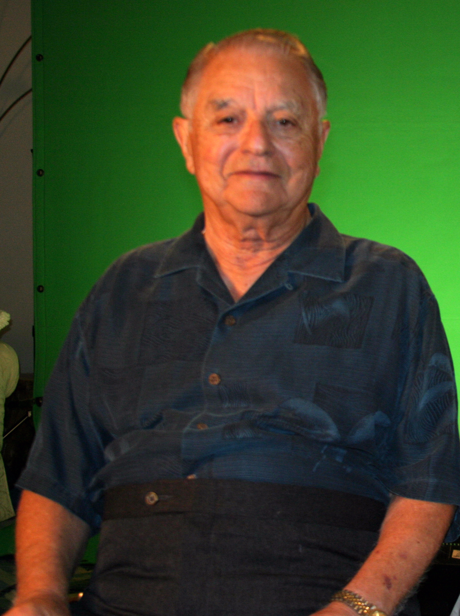 Brigadier General Bob Cardenas appears in "The Invisible Ones: Homeless Combat Veterans," a documentary produced by Crystal Pyramid Productions of San Diego, pro bono